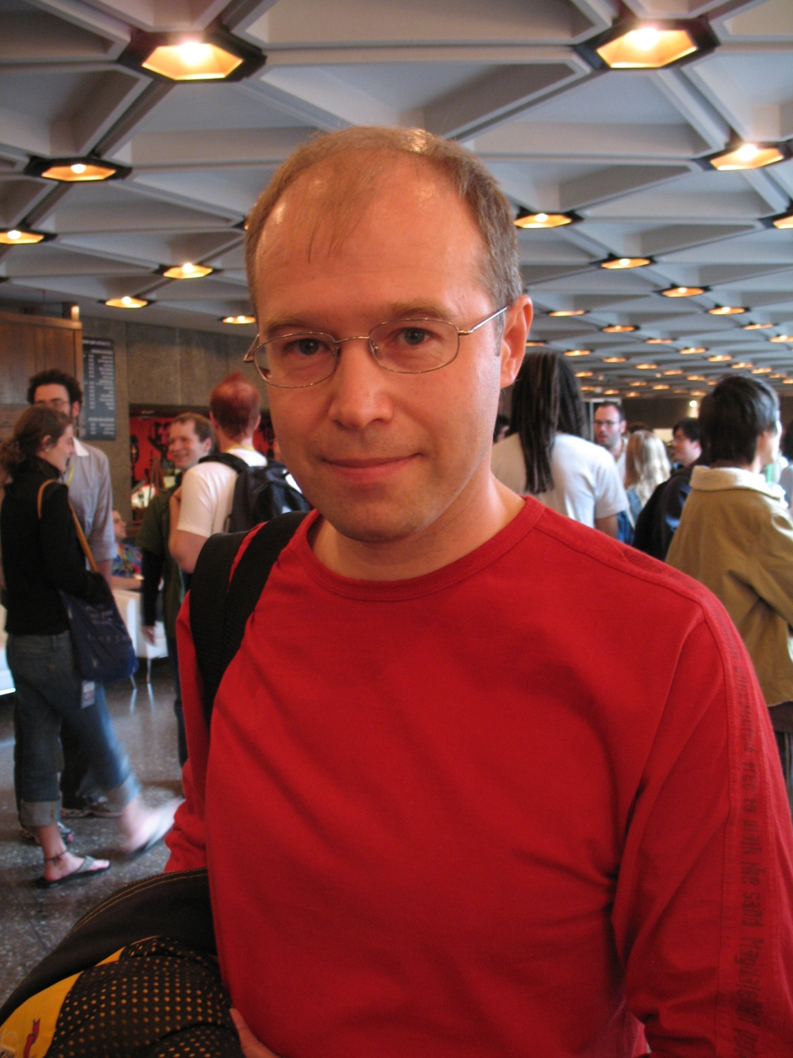 Russian animator Konstantin Eduardovich Bronzit at the Ottawa International Animation Festival (September 24, 2006).